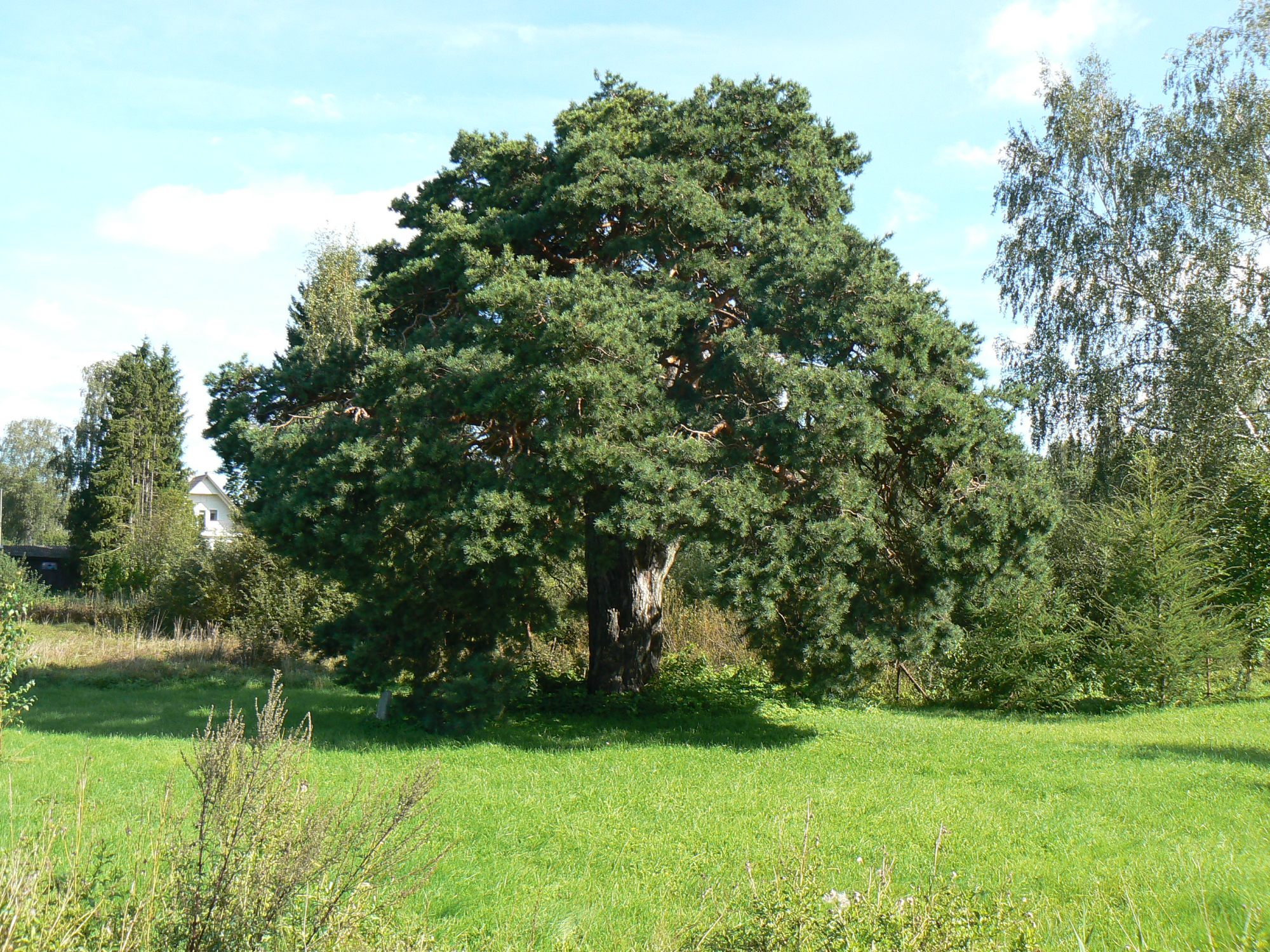 The Kambja pine in Estonia